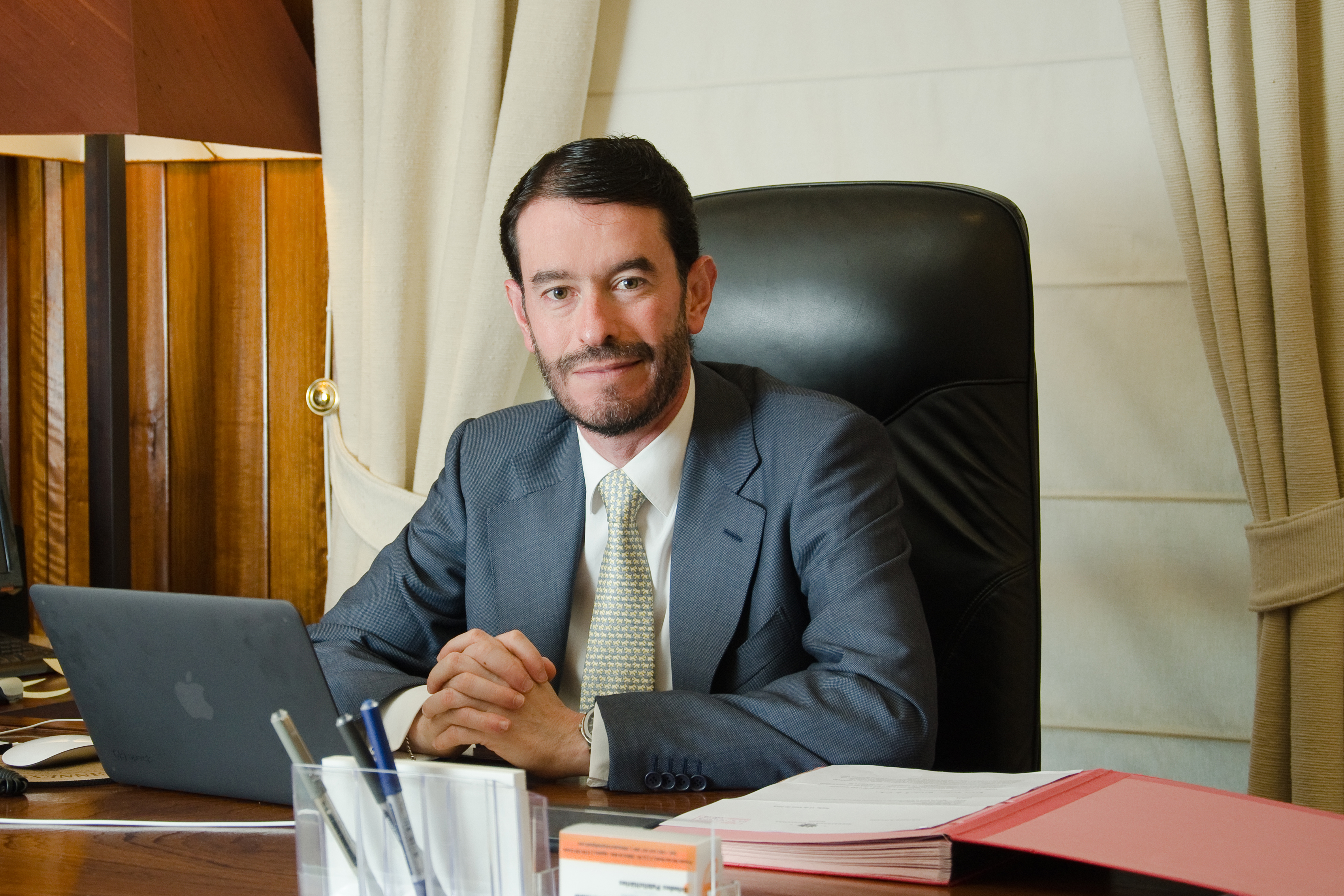 Miguel Frasquilho, President of AICEP